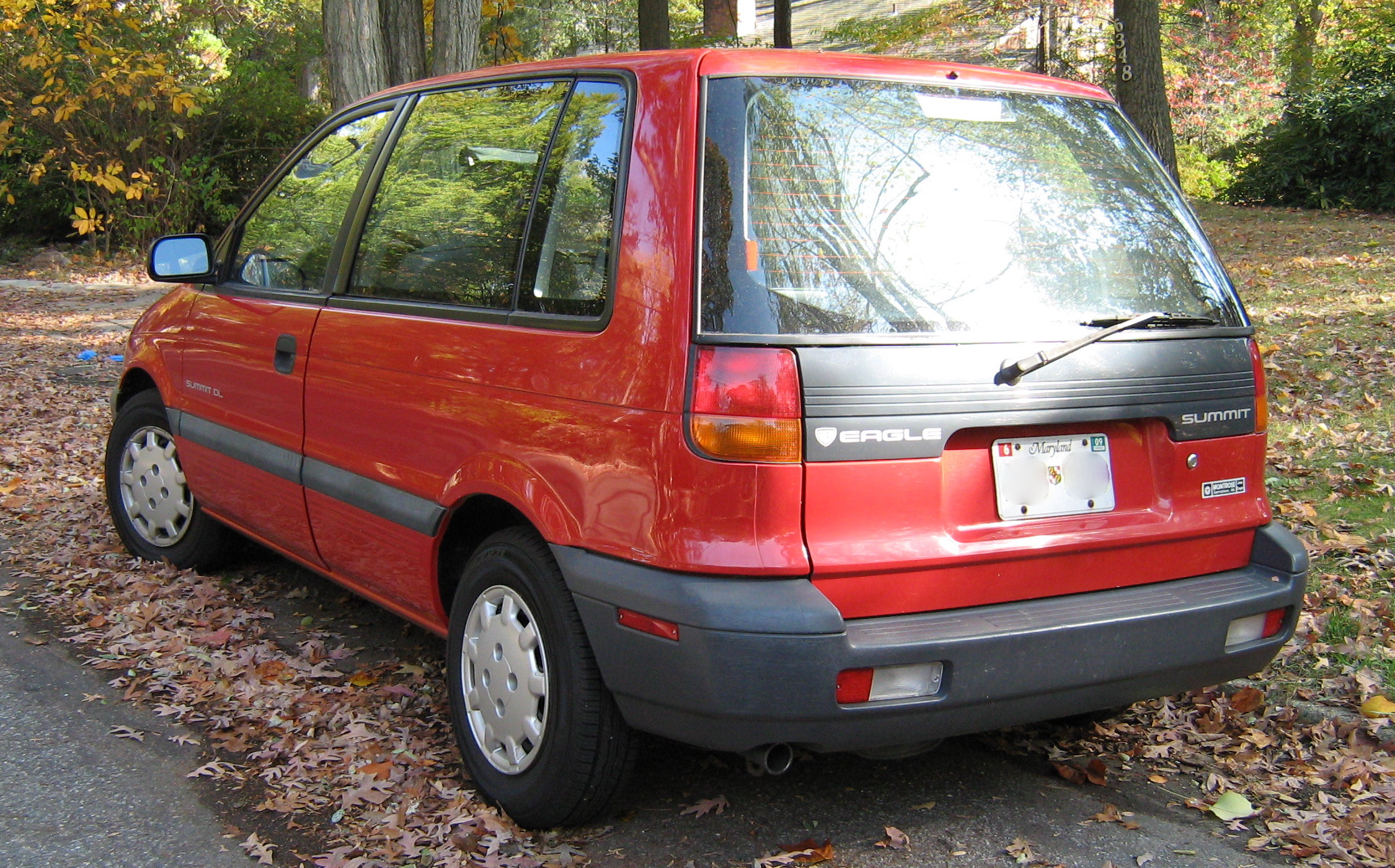 Eagle Summit Wagon - rear view - finished in red